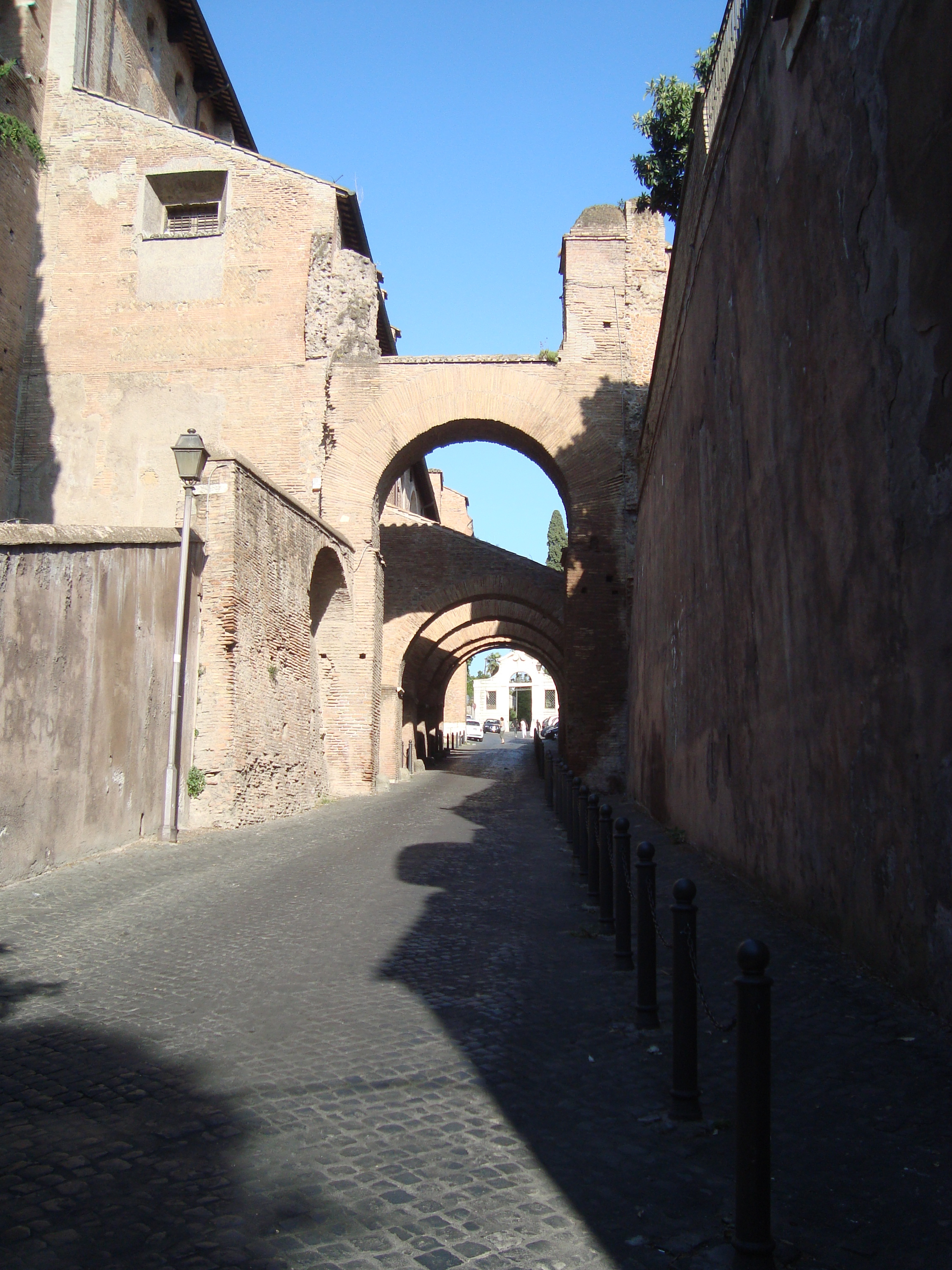 View of the Clivus Scauri, with the arcades of the Basilica Santi Paolo e Giovanni